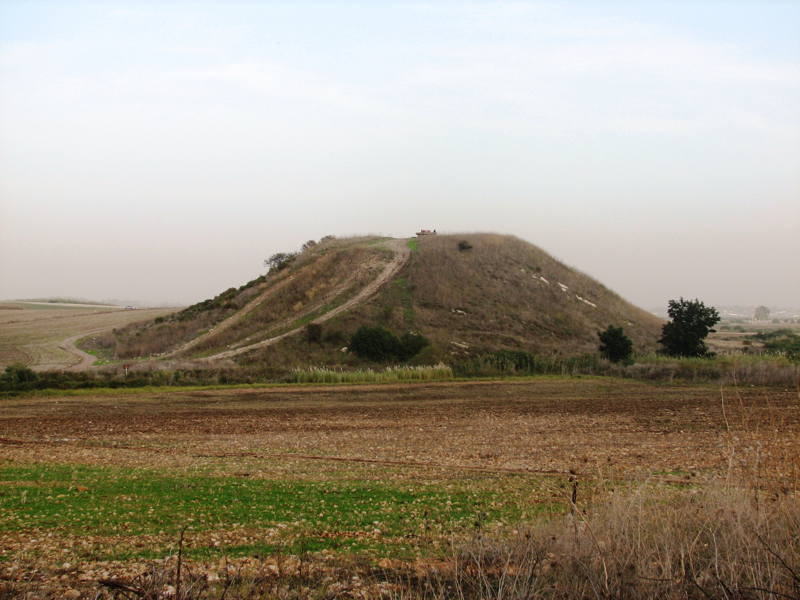 Tell Kashsis - Jezreel Valley